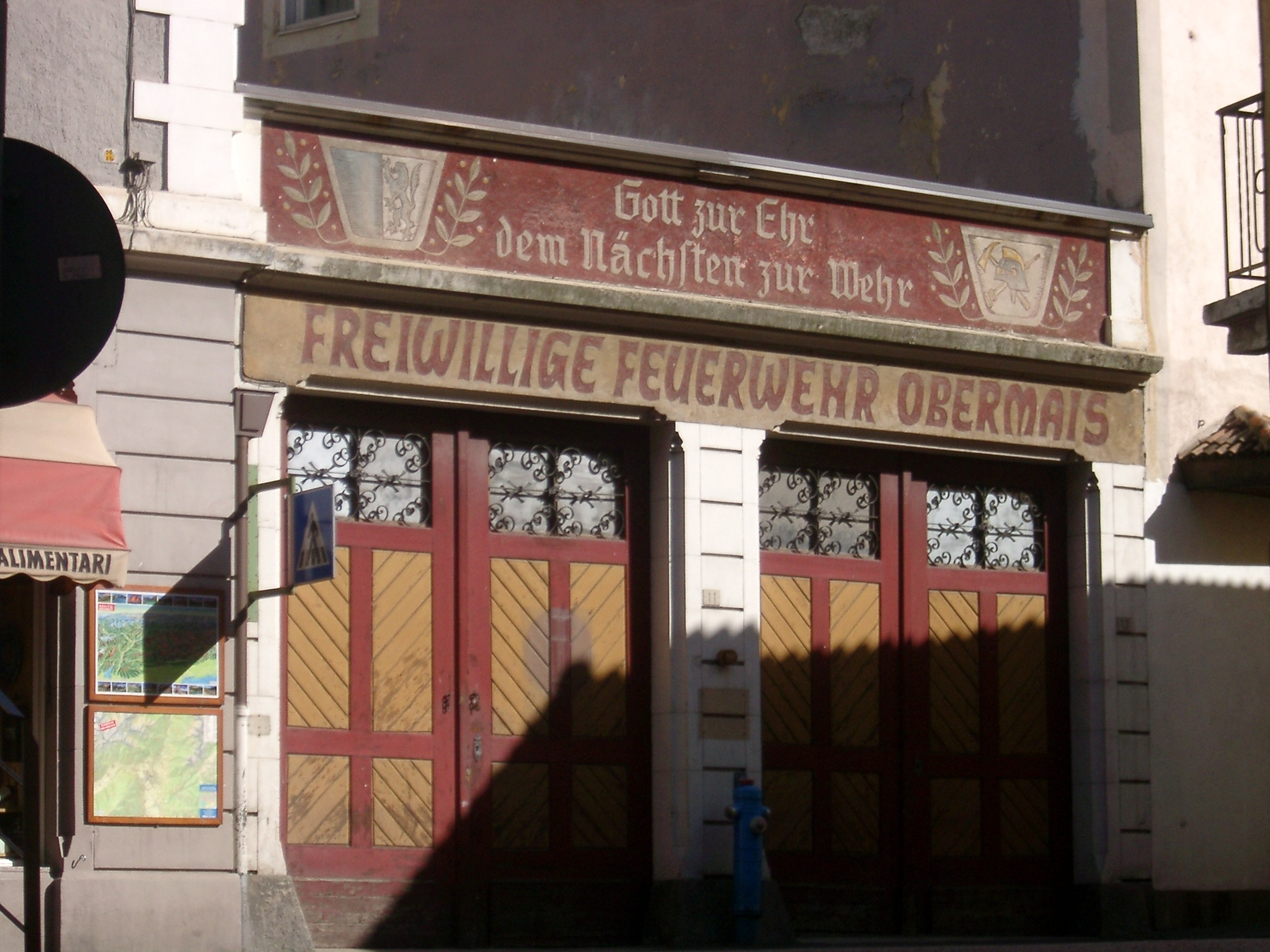 Meran-Obermais, suburb, fire brigade: "to the honour of god, for the protection of thy neighbour" - Voluntary fire brigade Obermais